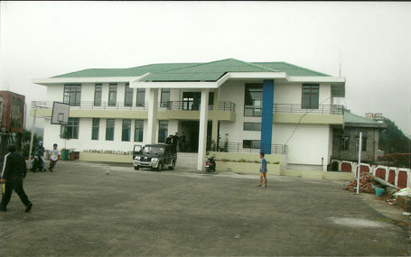 Higher and Technical Institute of Mizoram